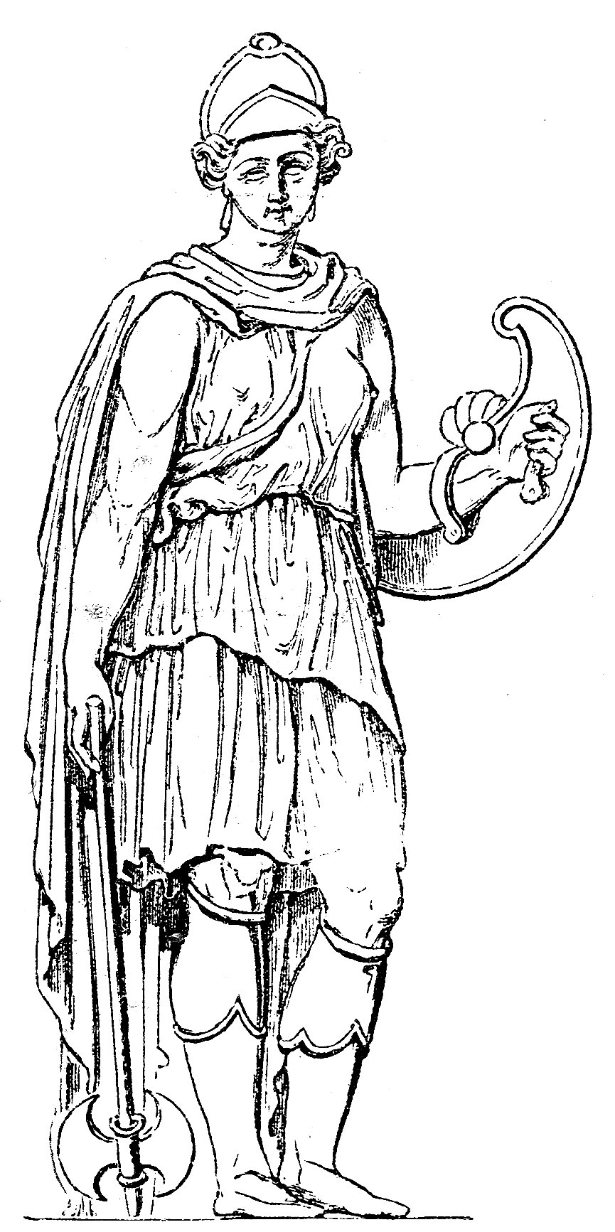 Illustration from "Illustrerad verldshistoria utgifven av E. Wallis. volume I": An Amazon. From a marble-statue i Dresden.